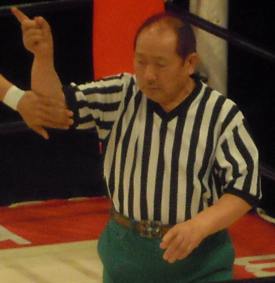 Professional wrestling referee, Shiro Abe. Jan 8 2012 Bull Nakano Final Event. TOKYO DOME CITY HALL.